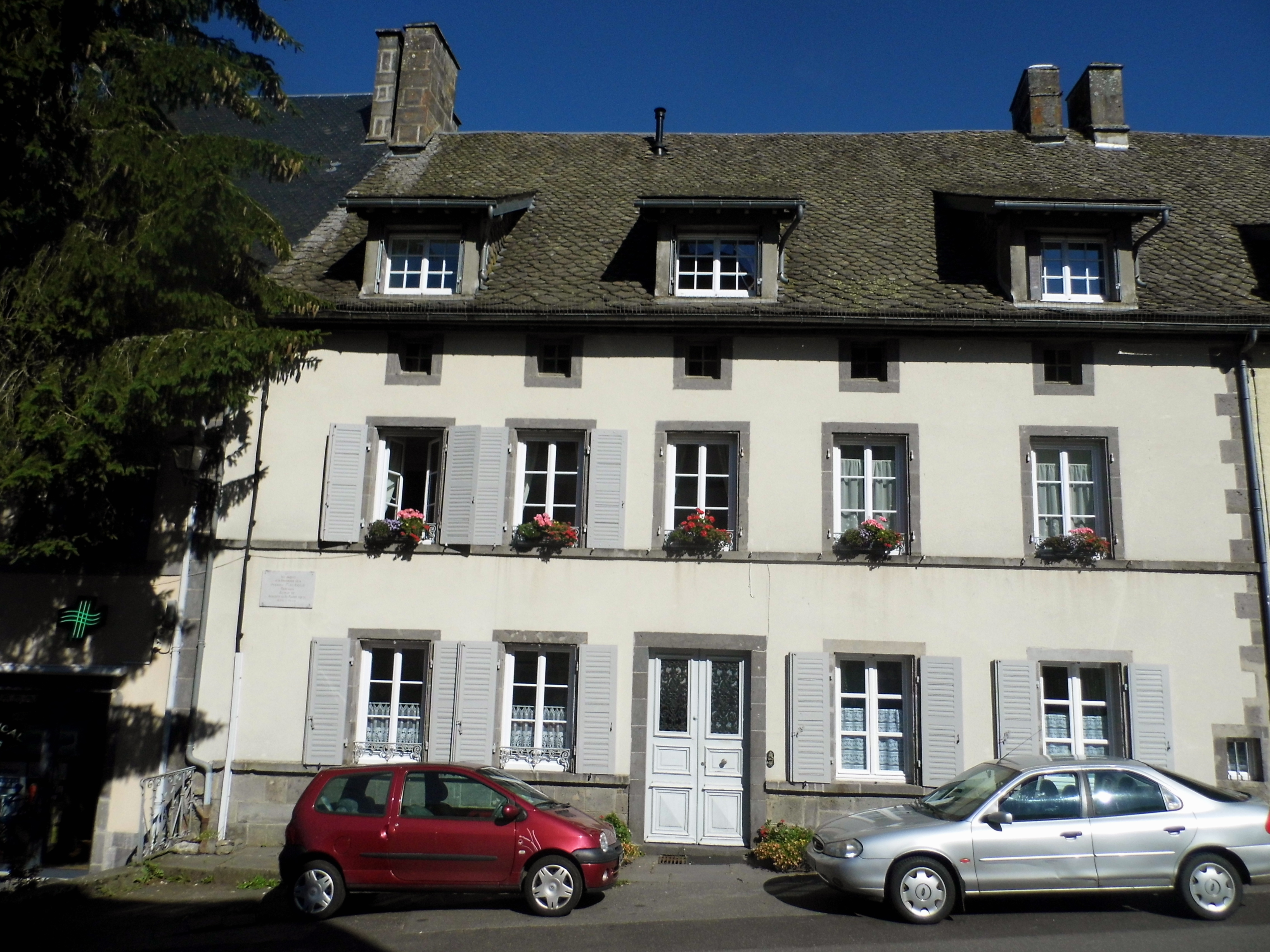 The house where Joseph Malègue was born in La Tour-d'Auvergne